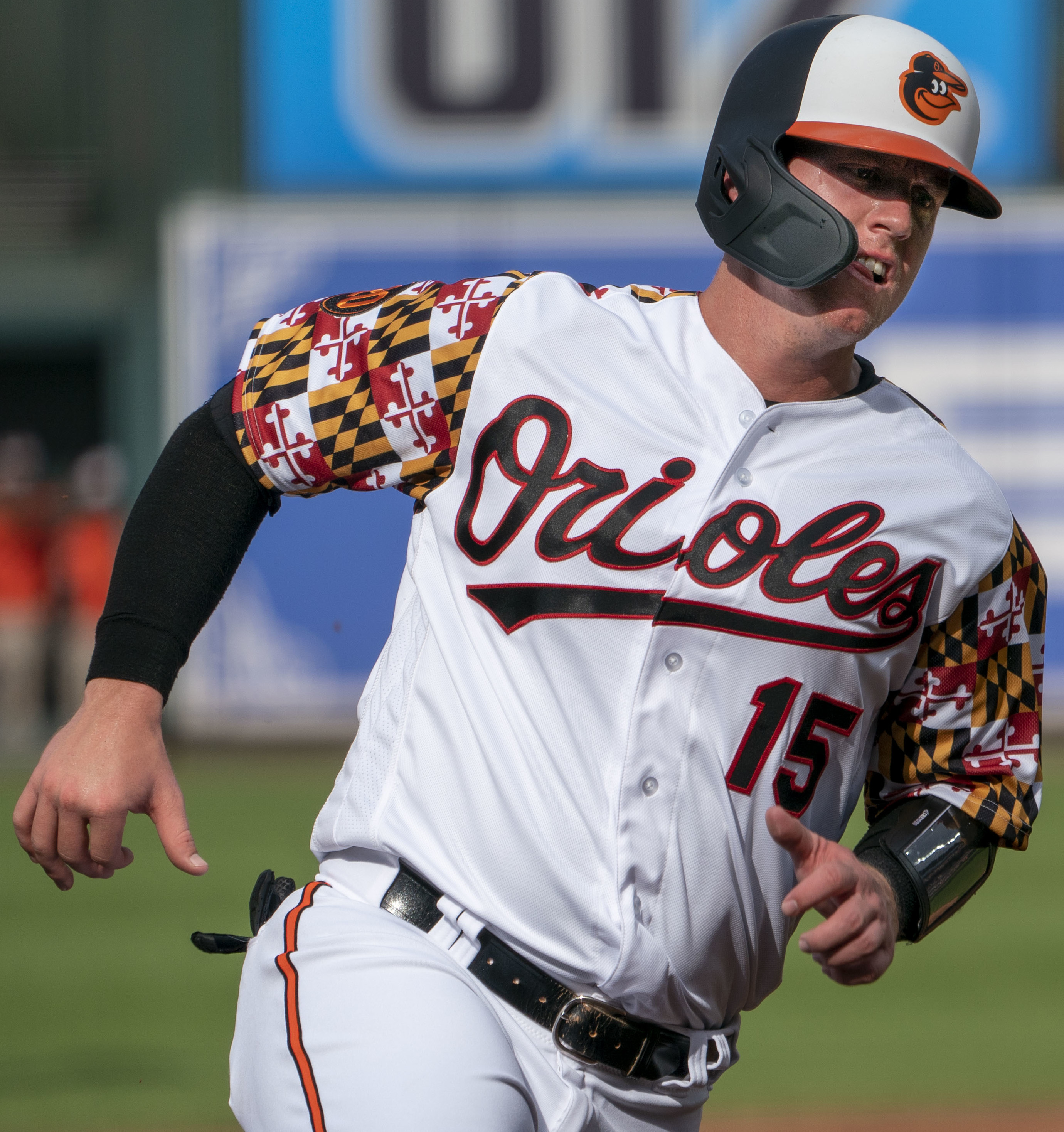 Indians at Orioles 6/29/19